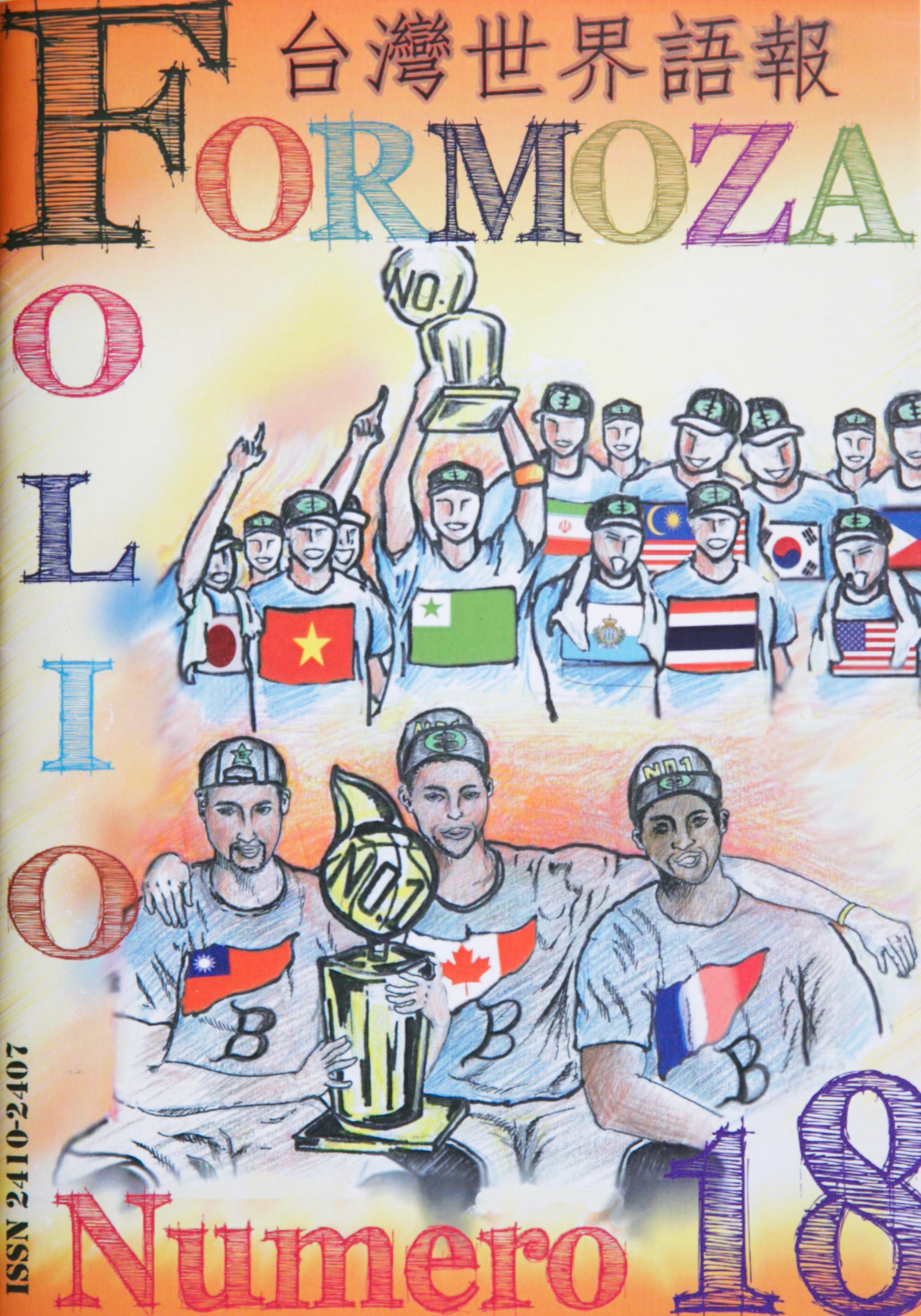 Cover page of “Formoza Folio”, issue 18